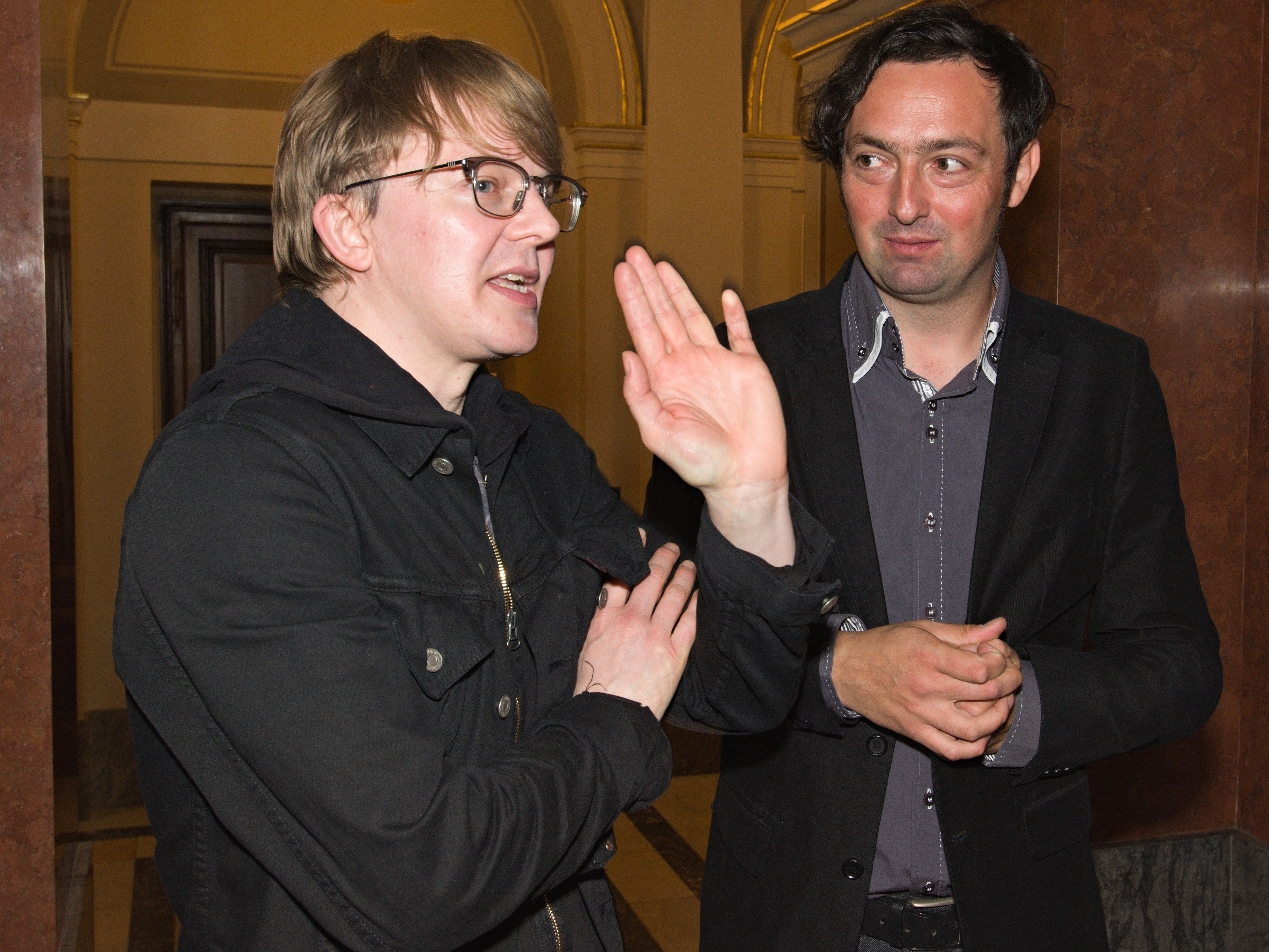 Artist Roger Hiorns and curator David Korecký, exhibition opening, Galerie Rudolfinum, Prague.